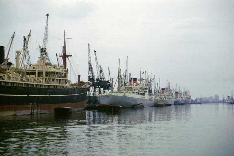 A colour slide taken on London docks sometime in 1961, Port Auckland is the ship in the centre.